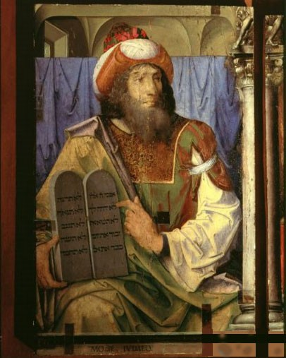 Moses with Tablet of the Law